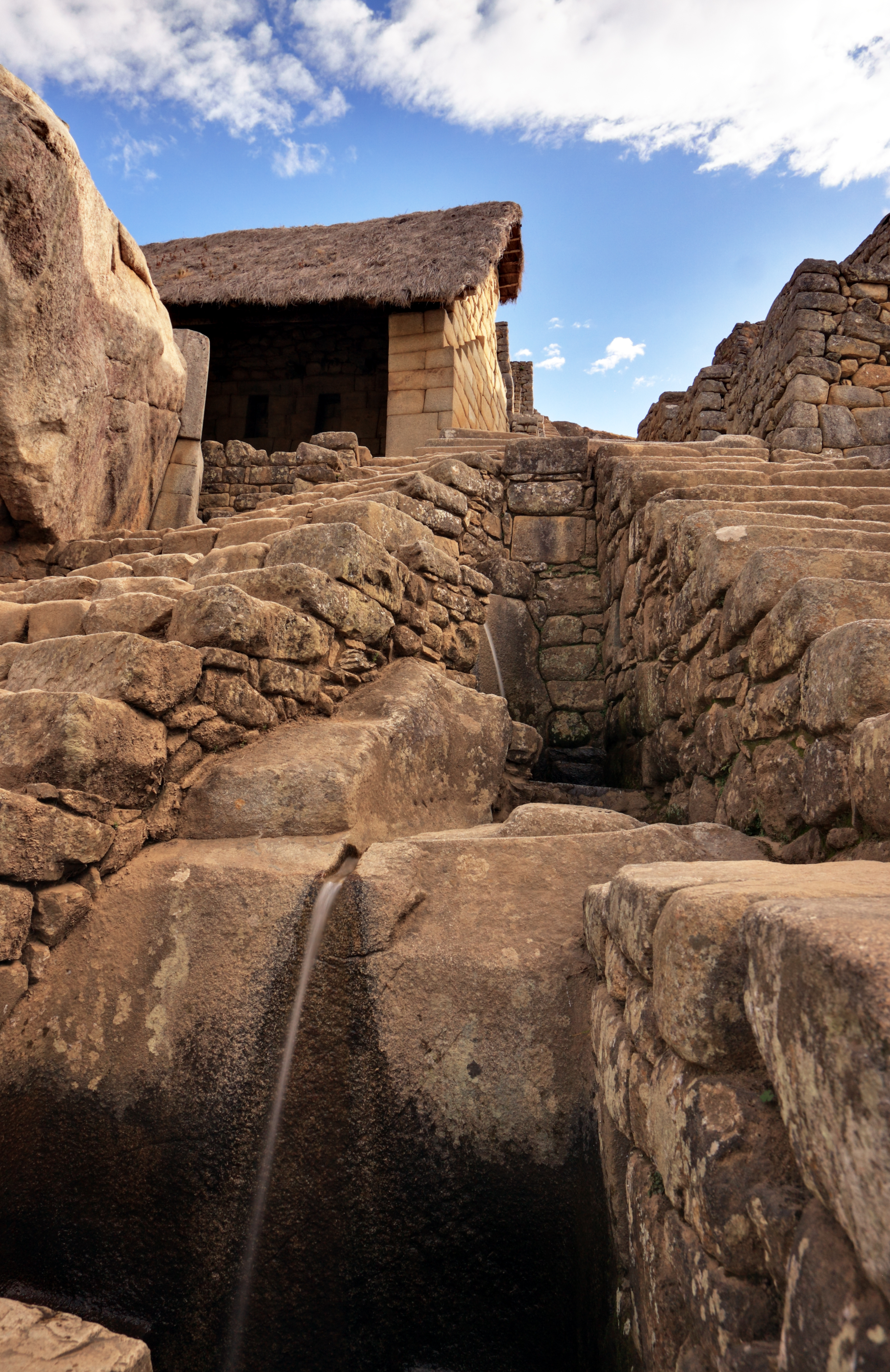 Please, have this description accessible to all by translating it in different languages.